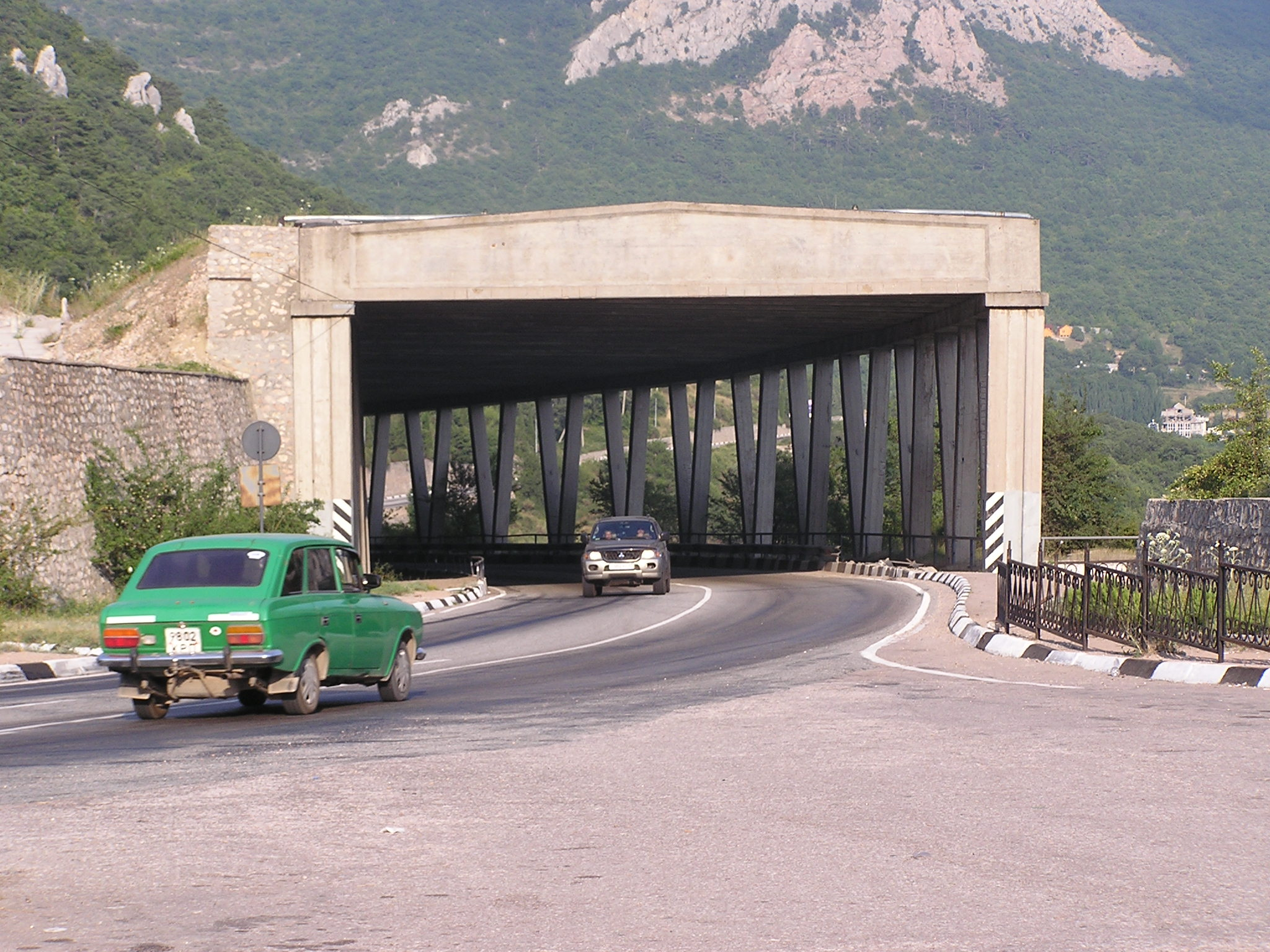 Laspi Pass